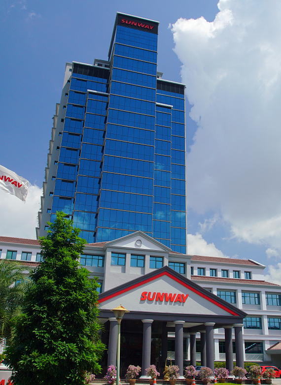 Sunway Group is one of Malaysia’s largest conglomerates with core interests in property, construction, education and healthcare.